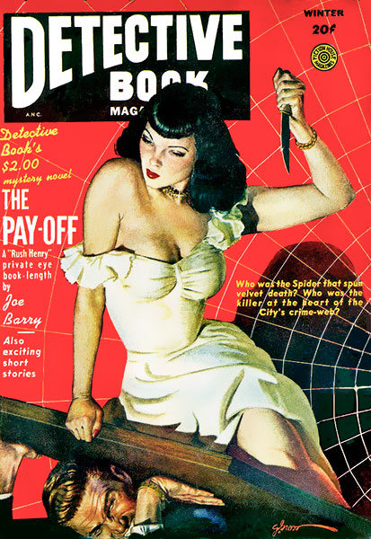 Detective Book Magazine, volume 6, number 2 (Fiction House, Sept-Nov 1949). Artwork by George Gross.